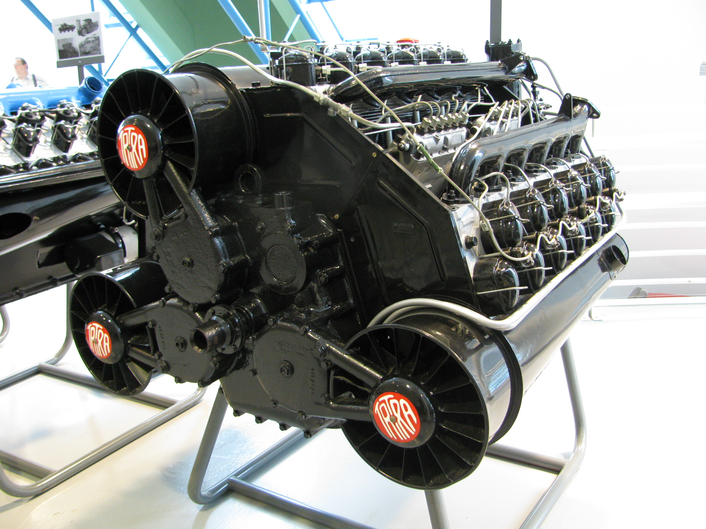 Tatra T955, aircooled W18 diesel engine prototype from 1943. Displacement 22 238 ccm, bore 110 mm, stroke 130 mm, max output 220.6 kW /2000 rpm. Tatra Technical Museum, Kopřivnice, Czech Republic.